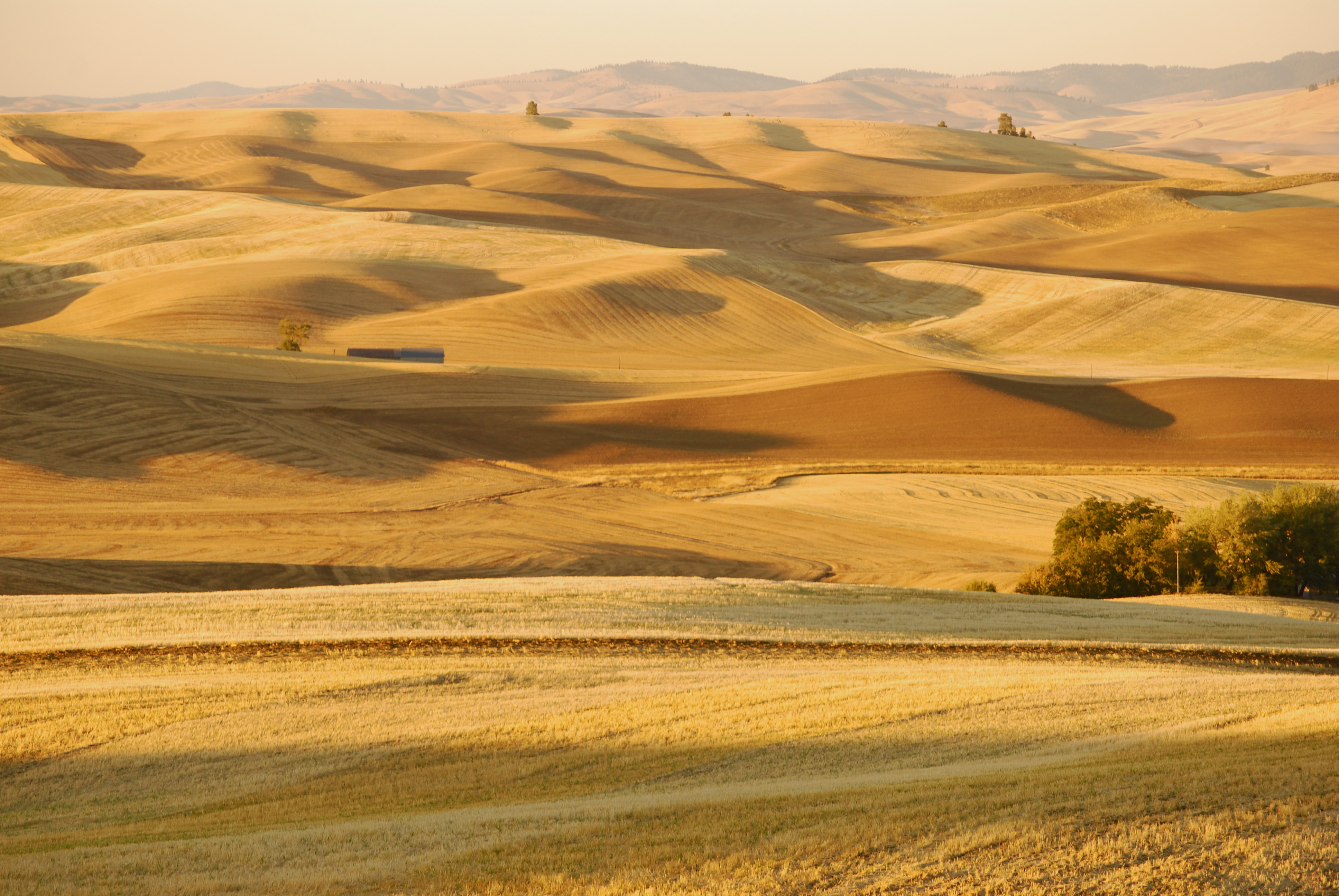 Palouse fields from Kamiak Butte, USA. The harvest is over.